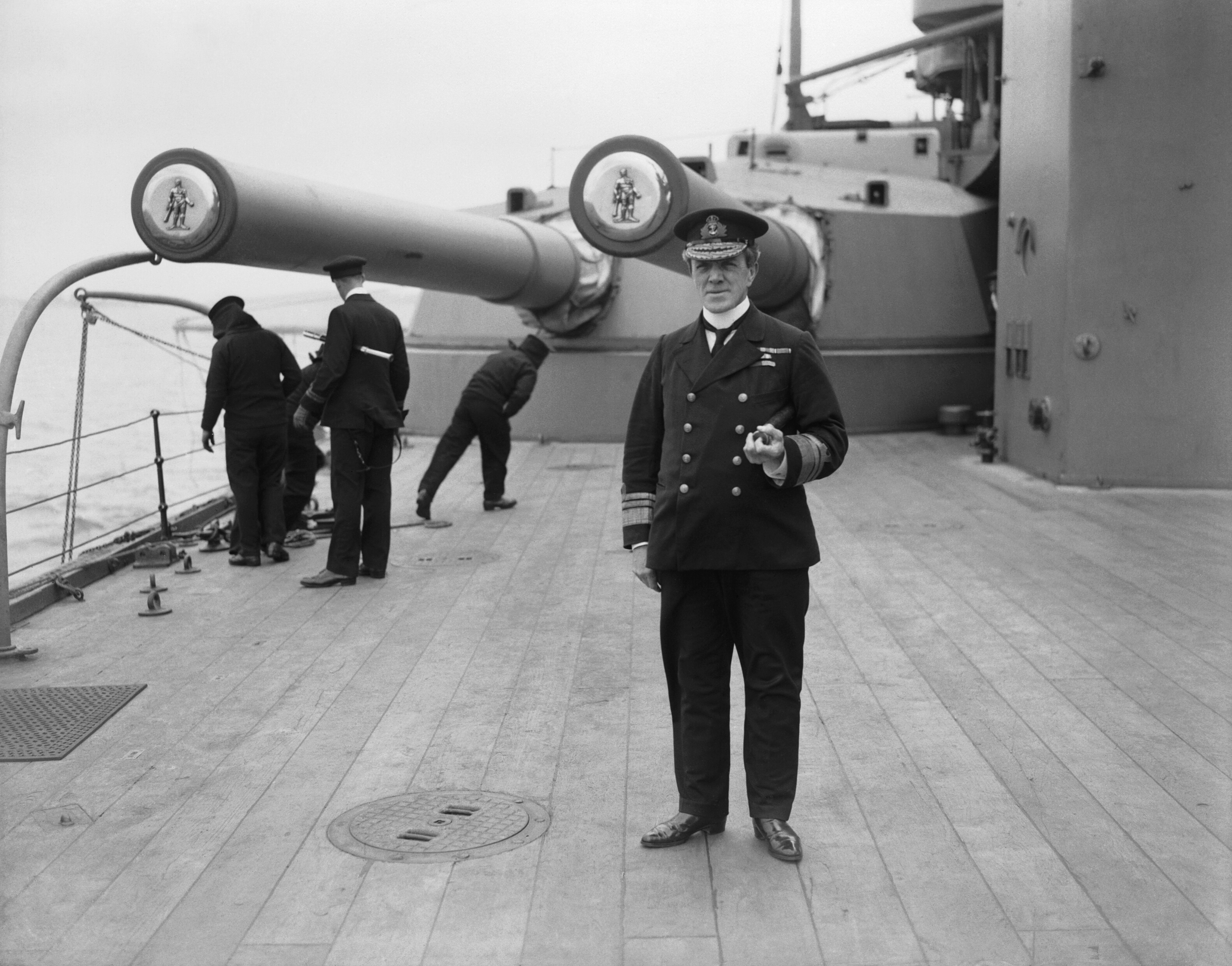 Photograph of Vice Admiral Sir Doveton Sturdee, Flag Officer Commanding the 4th Battle Squadron, on board HMS HERCULES. In the background is a wing turret with its 12-inch guns.